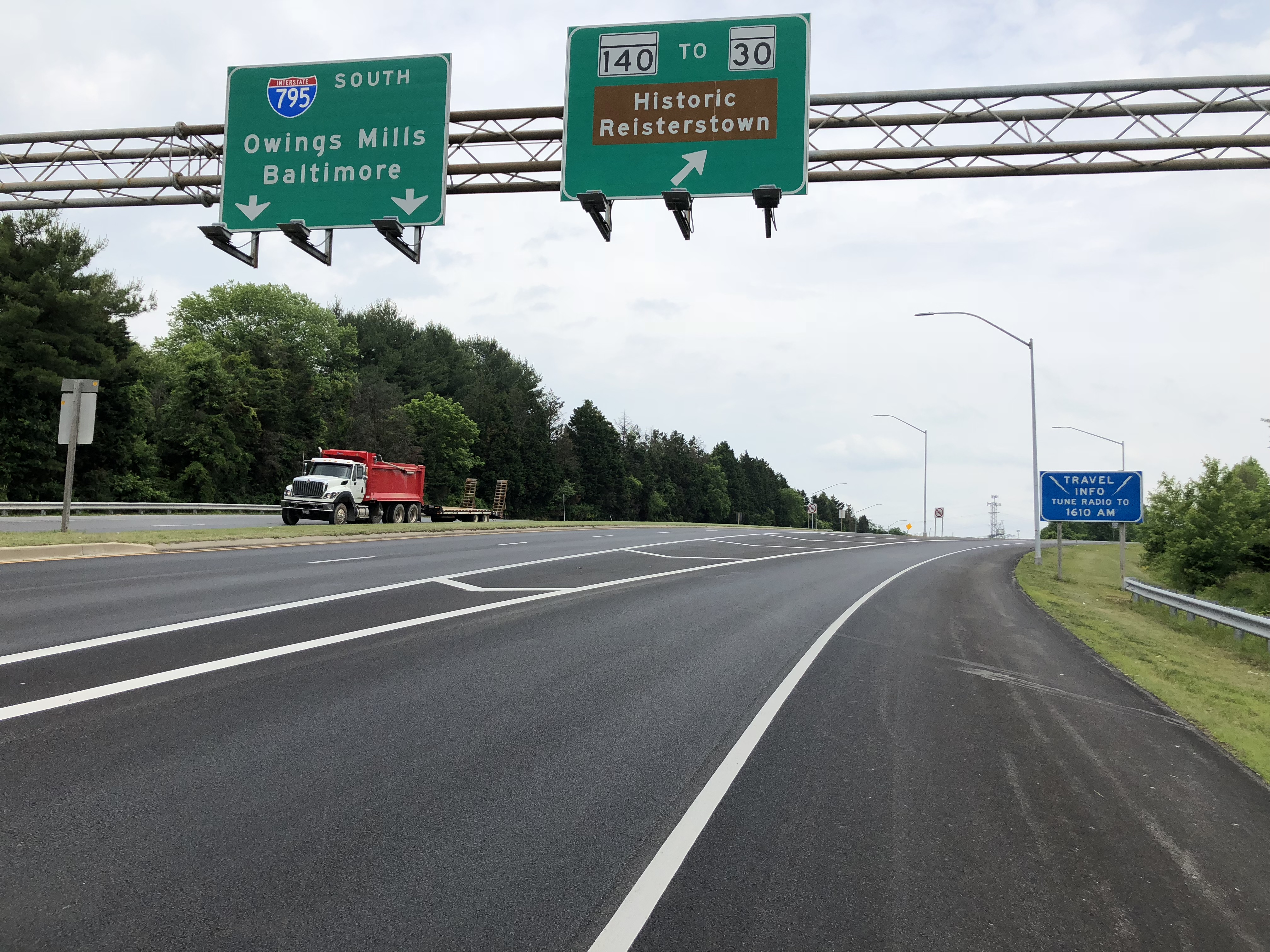 View east along Maryland State Route 140 (Westminster Pike) at the exit for Interstate 795 SOUTH (Owings Mills, Baltimore) in Glen Falls, Baltimore County, Maryland